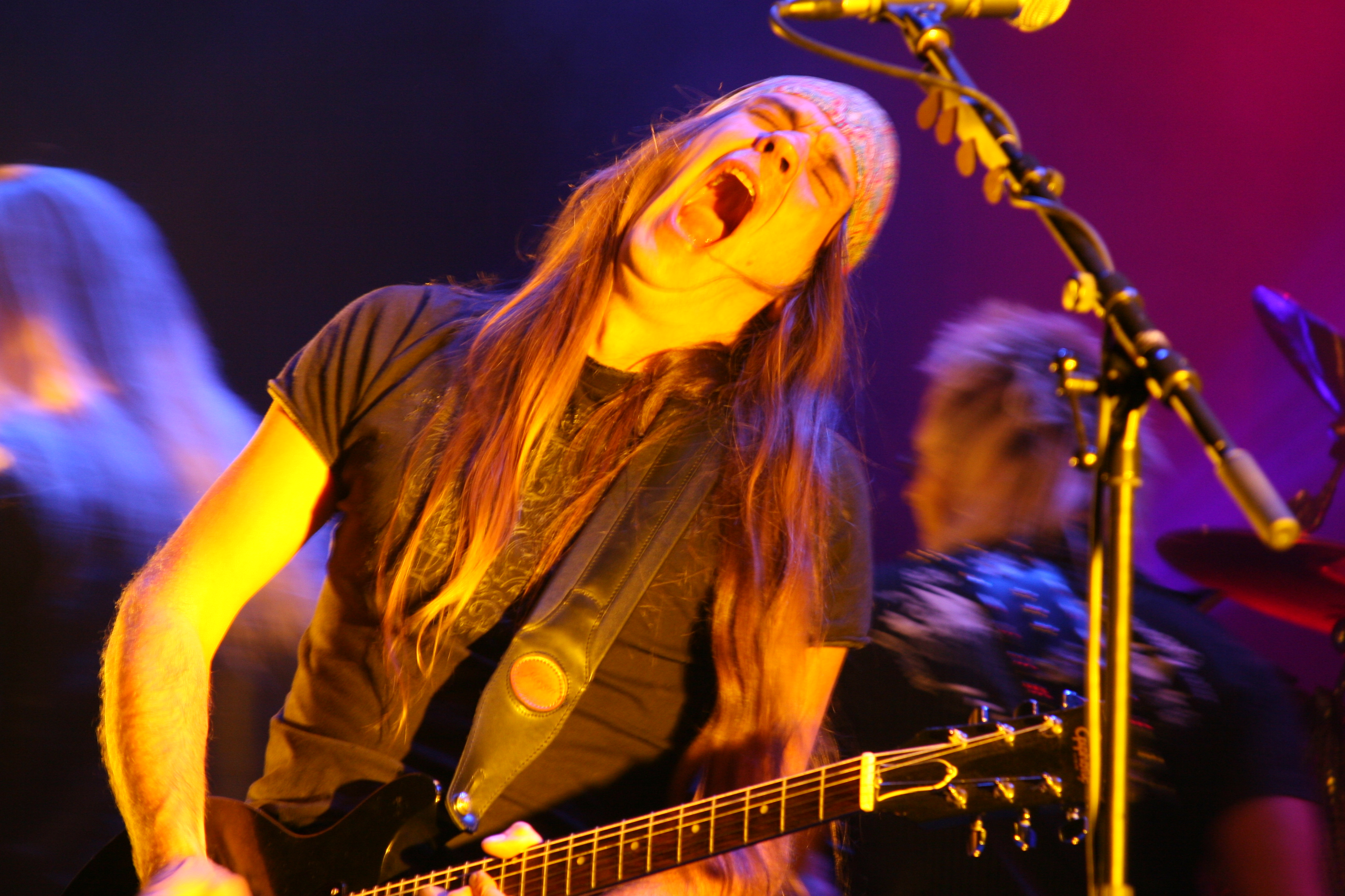 Ronni Le Tekrø at Rockefeller, Oslo